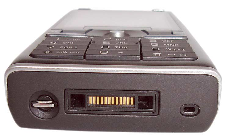 Bottom view of Sony Ericsson K800i